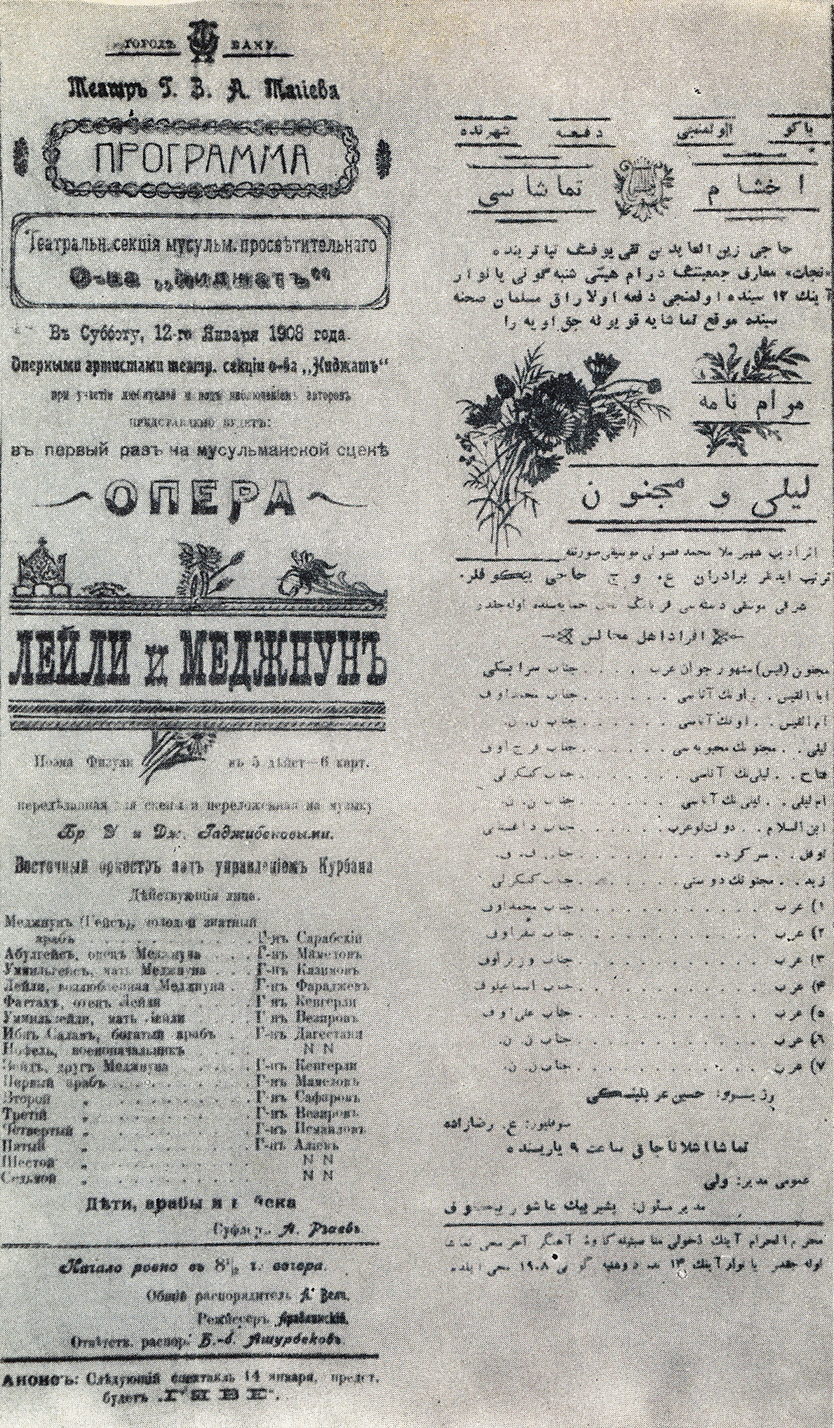 First program of "Leyli and Mejnun" opera of Uzeir Hajibeyov, Baku, 1908